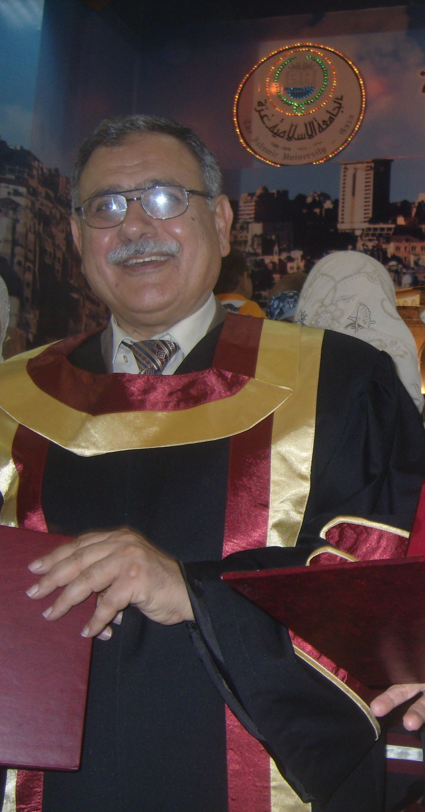 Photo of Dr. Kamalain Shaath taken during a public event in Gaza 2010. It was the ceremony of graduating some of the students of the Islamic University of Gaza.